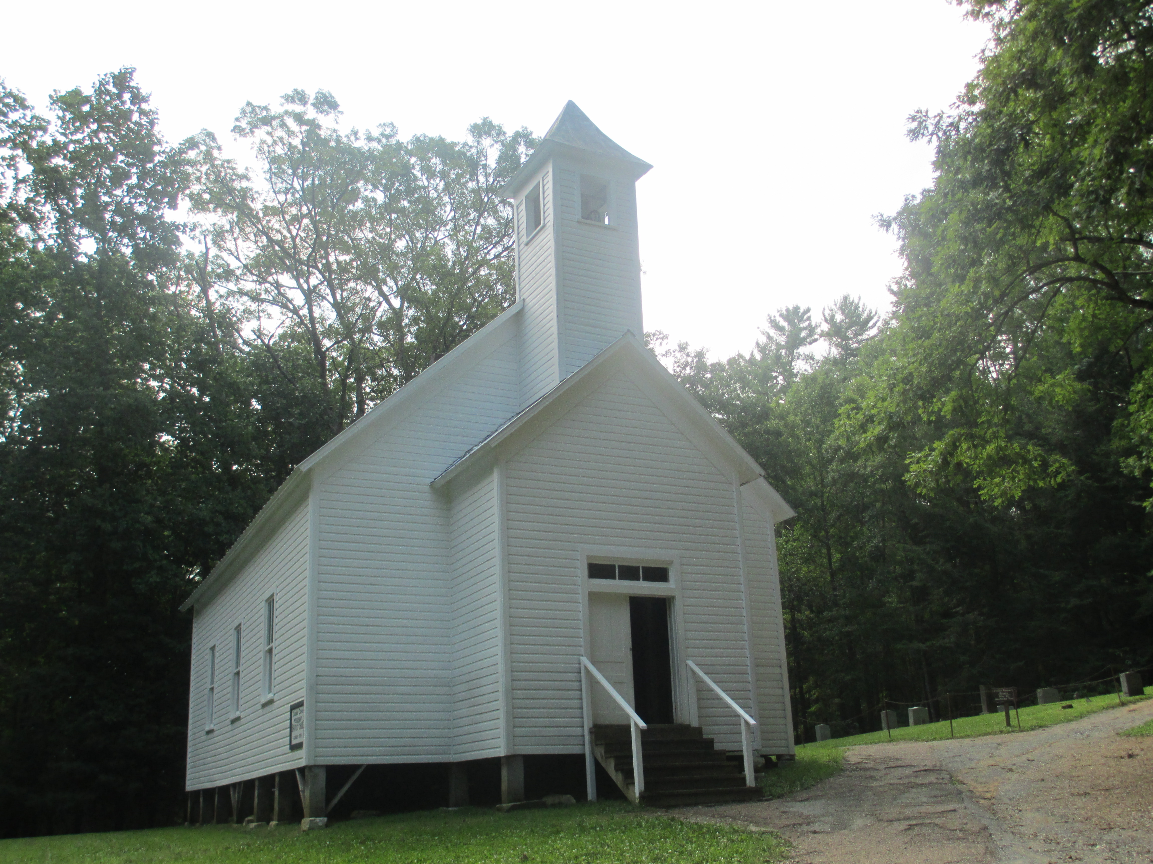 I took photo of Cades Cove Missionary Baptist Church, with Canon camera.